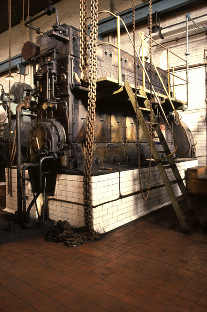 Booster drive at Orgreave coking works, South Yorkshire. This is a Belliss and Morcom diesel and half hidden to its left is the first of a row of big electric driving motors.